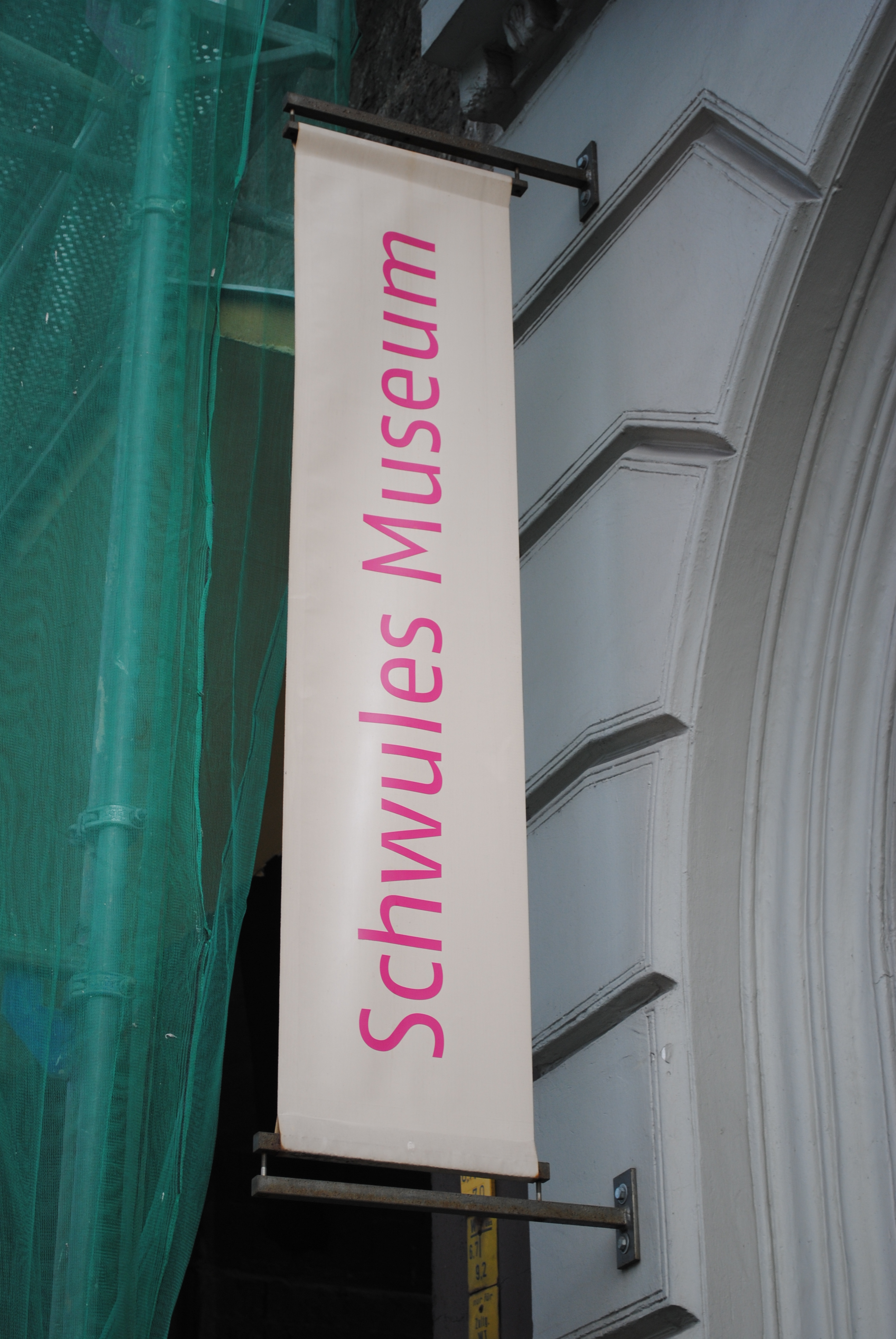 Berlin Schwules Museum